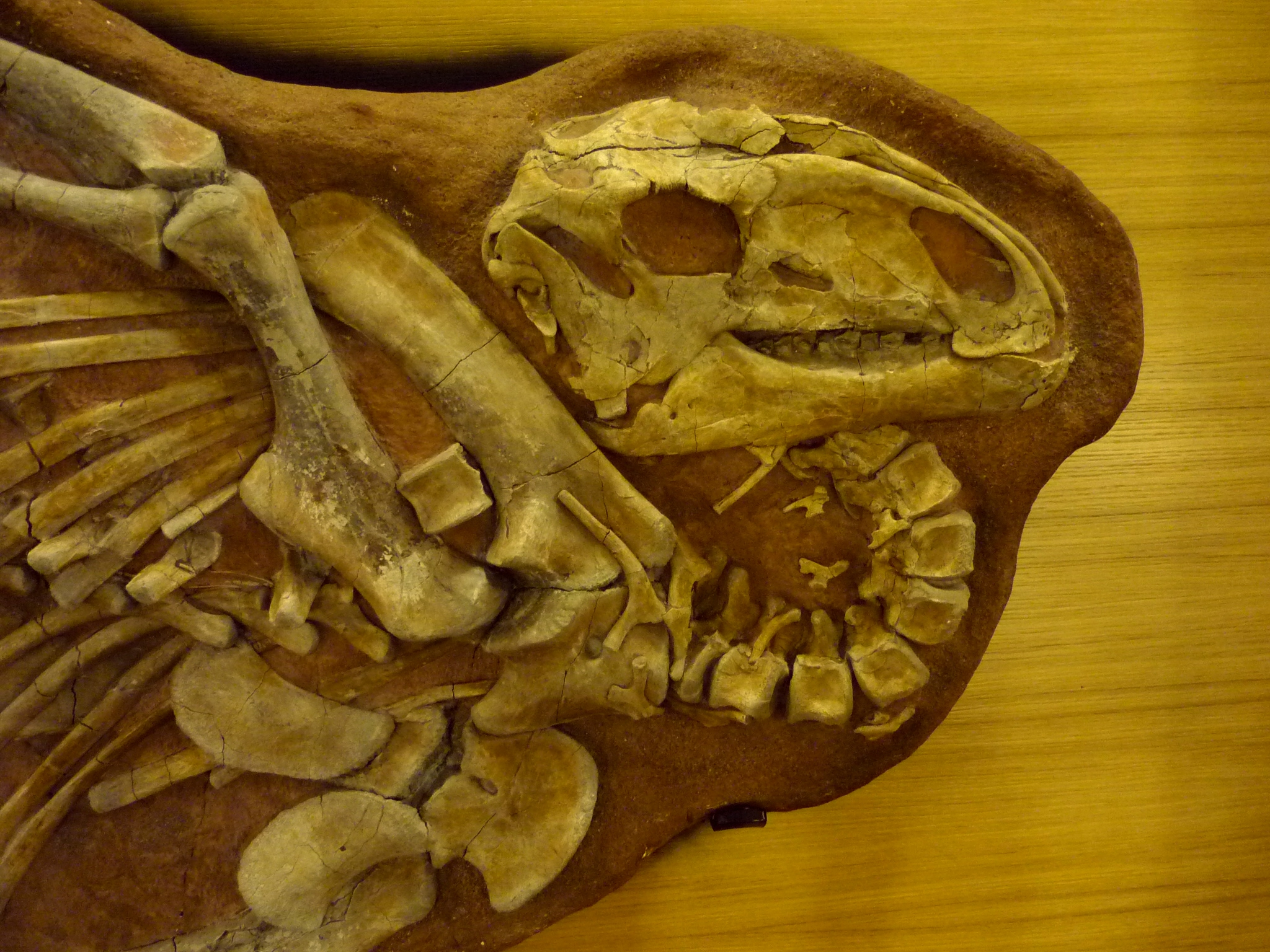 Head of Tenontosaurus, Institut de paléontologie humaine, Paris, France